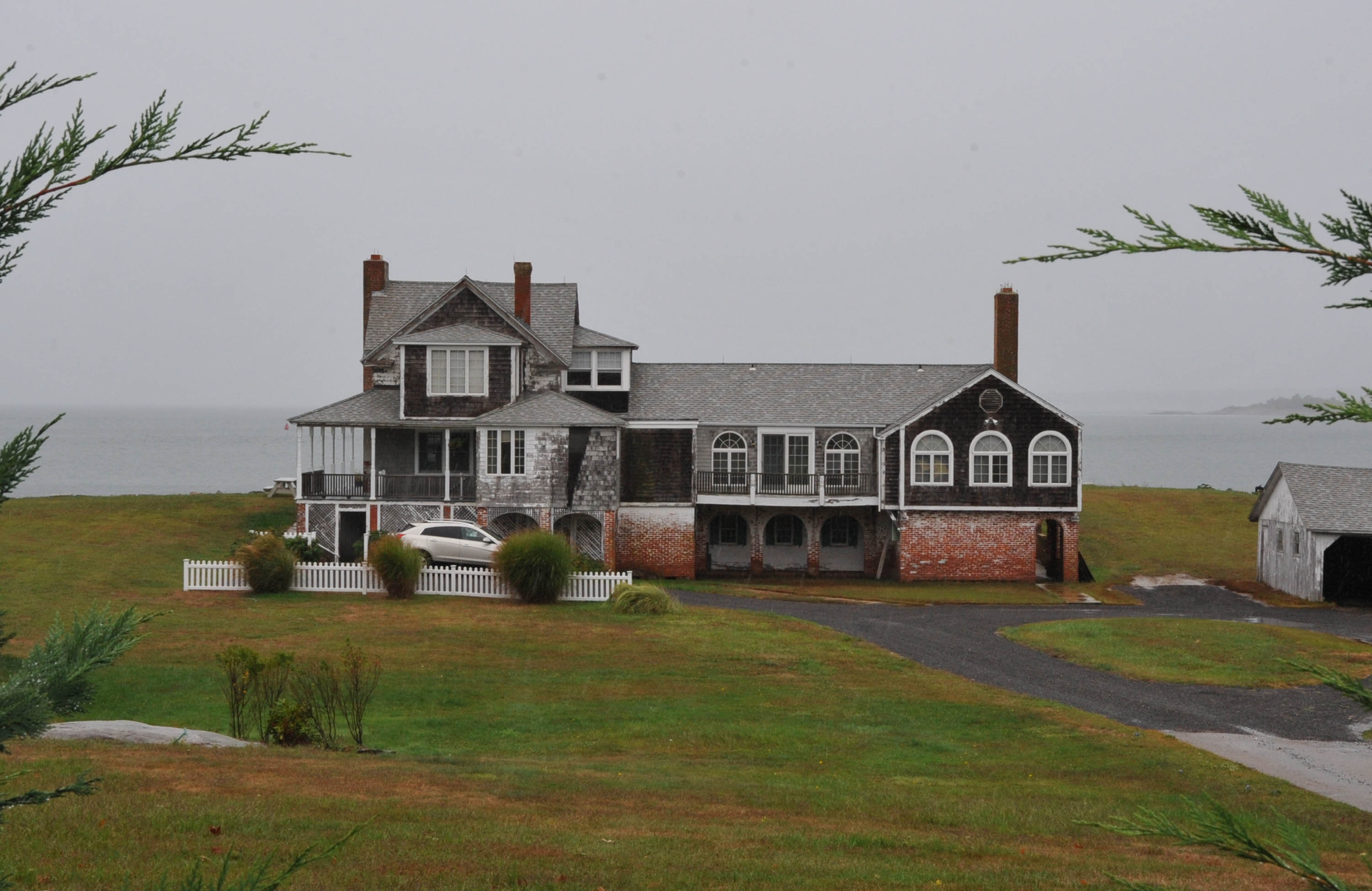 THIS IS THE LARGEST AND MOST DISTINCTIVE HOUSE LOCATED ALONG NEW SHORE DRIVE OVERLOOKING LONG ISLAND SOUND